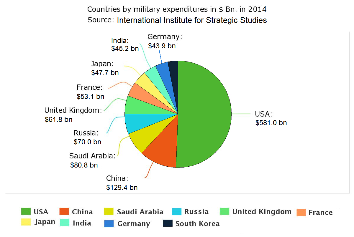 Own work based on International Institute for Strategic Studies[1]